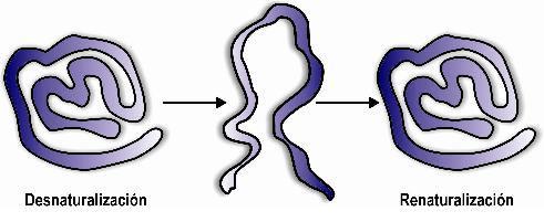 Protein